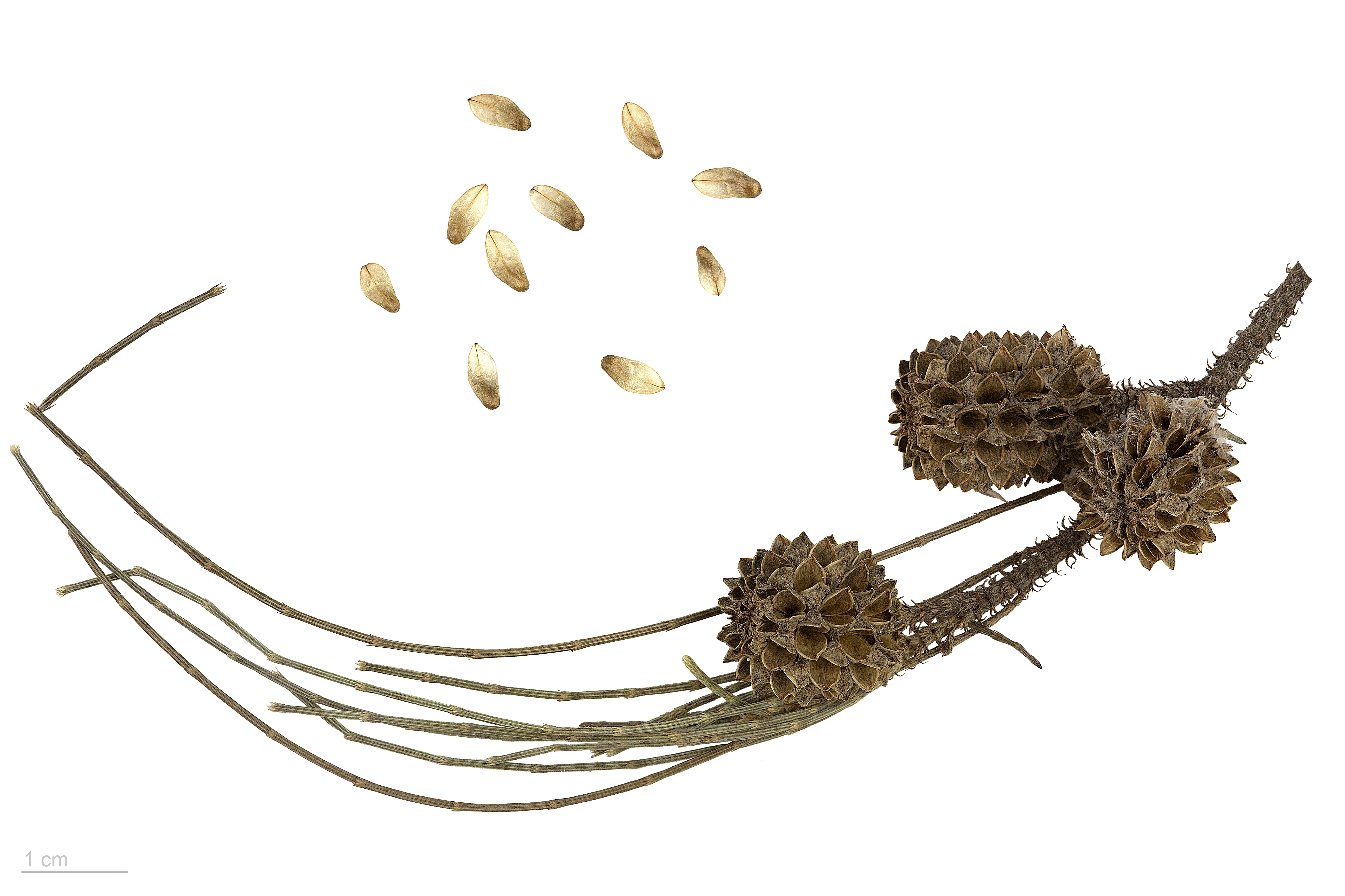 Casuarina equisetifolia, Australian pine tree, seeds